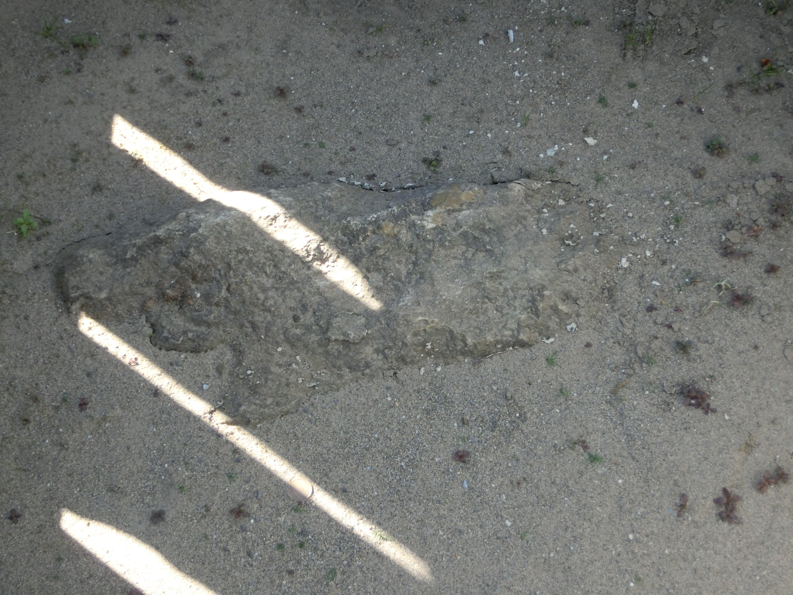 Tateishi-sama